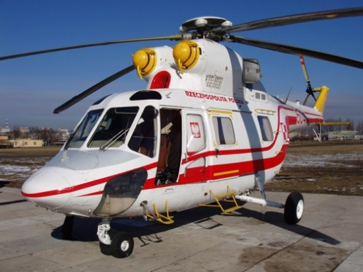 PZL sokół vip